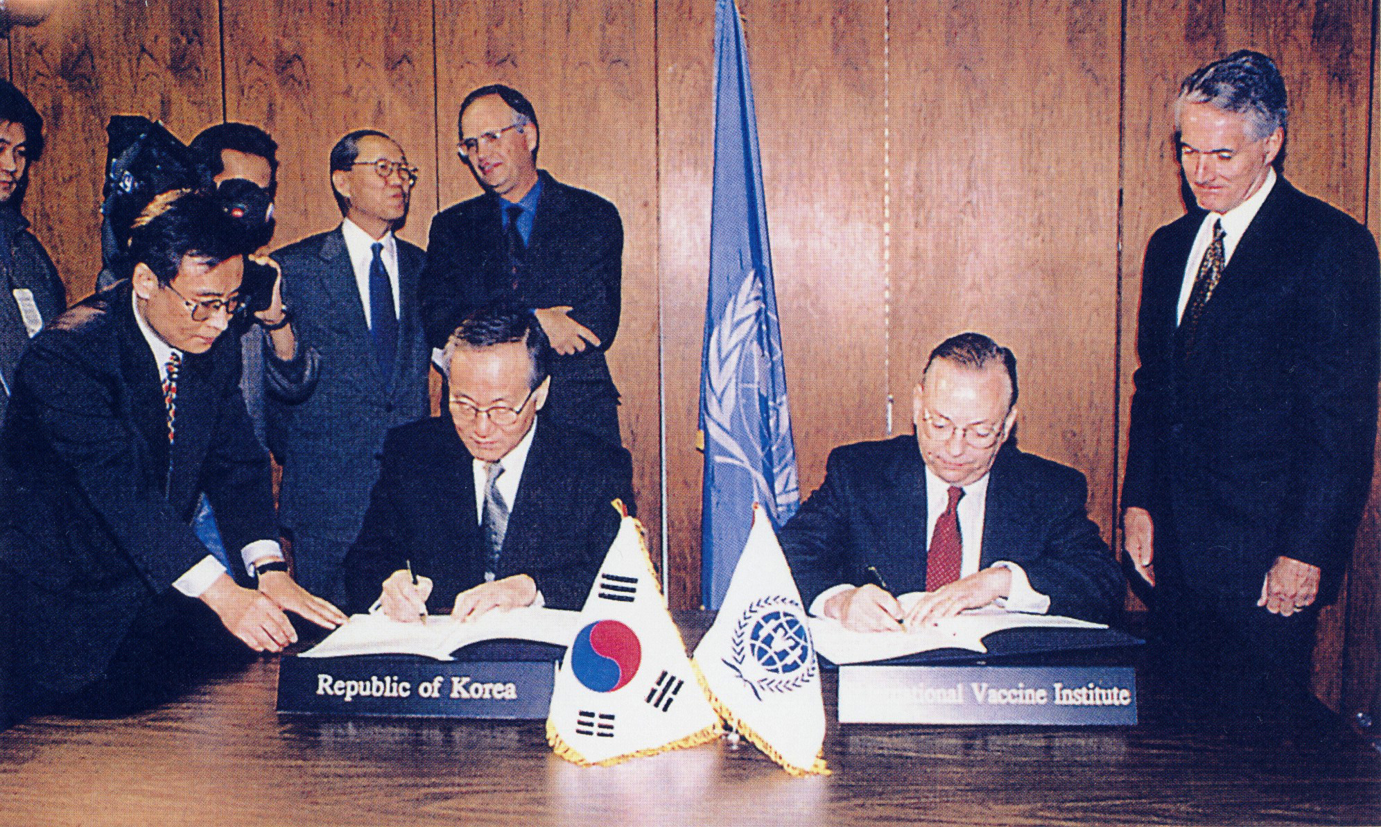 The signing ceremony for the Establishment Agreement of the International Vaccine Institute. Taken on September 24, 1998. Seated are former South Korea Minister of Foreign Affairs and Trade, Hon. Hong Soon-Young and former IVI Board Chairman, Dr. Barry Bloom.